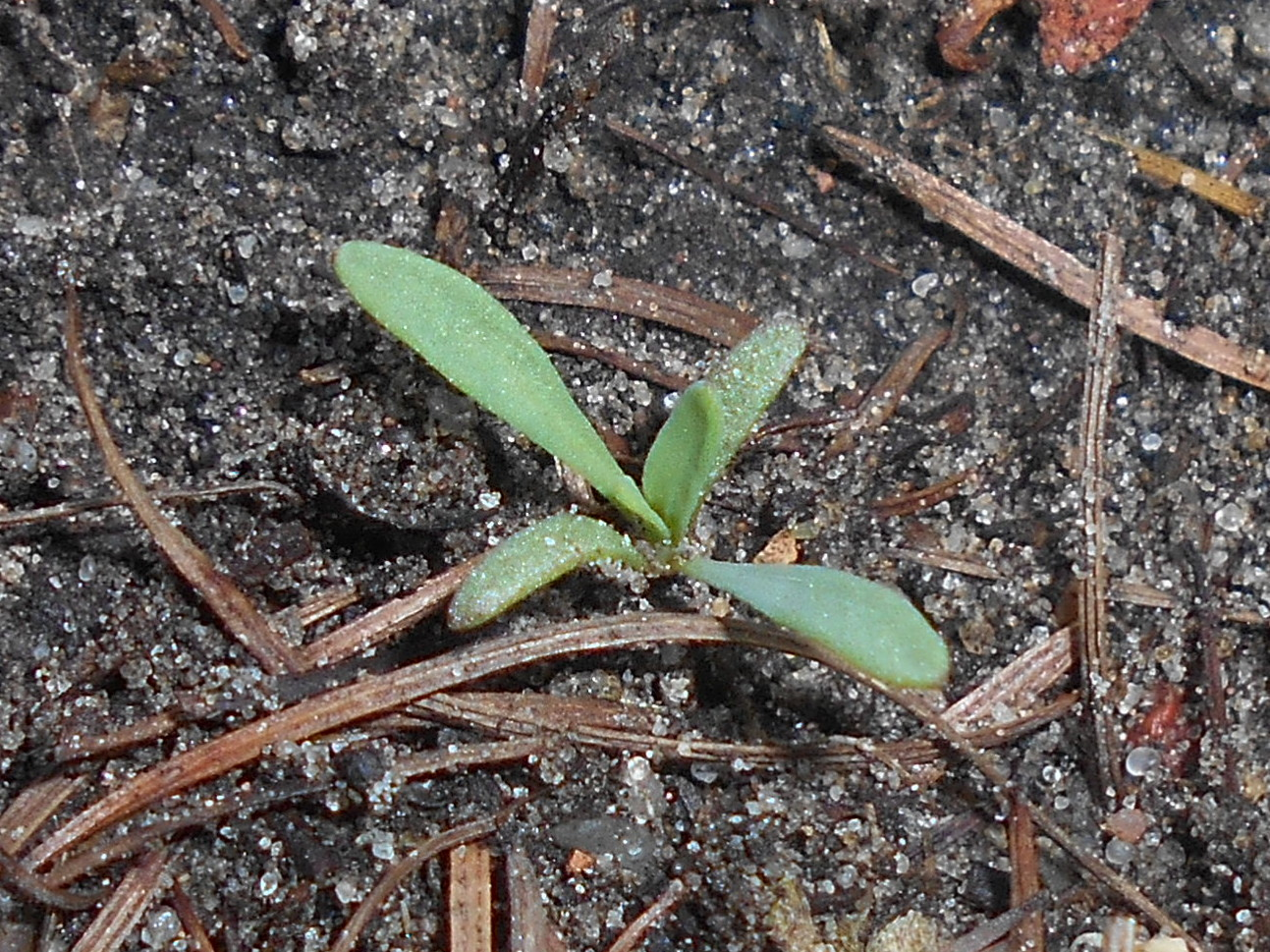 Corrigiola litoralis seedling, Berlin-Dahlem Botanical Garden.